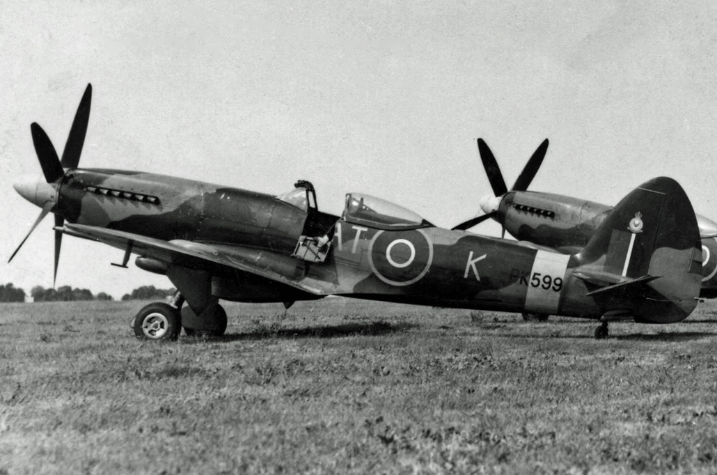 A Supermarine Spitfire F.22 (s/n PK599, RAT-K) of No. 613 (City of Manchester) Squadron, Royal Air Force, at Manchester (Ringway) Airport (UK), in May 1949.